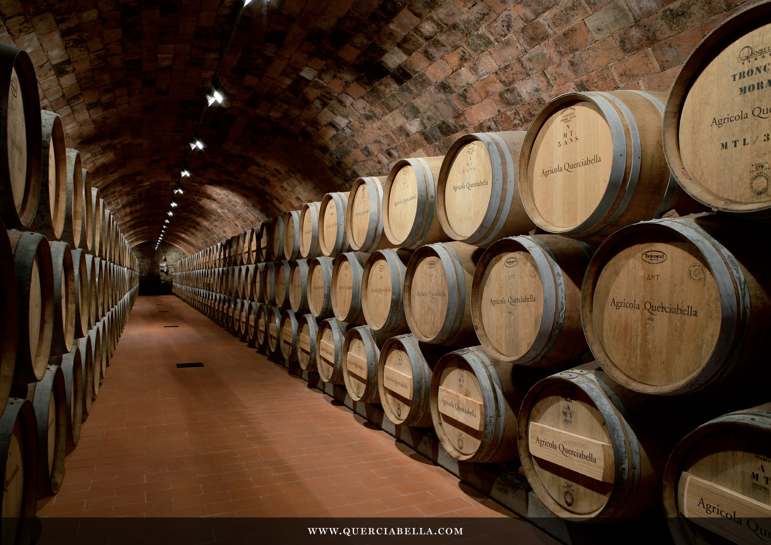 Barrique cellar at Querciabella, Greve in Chianti.